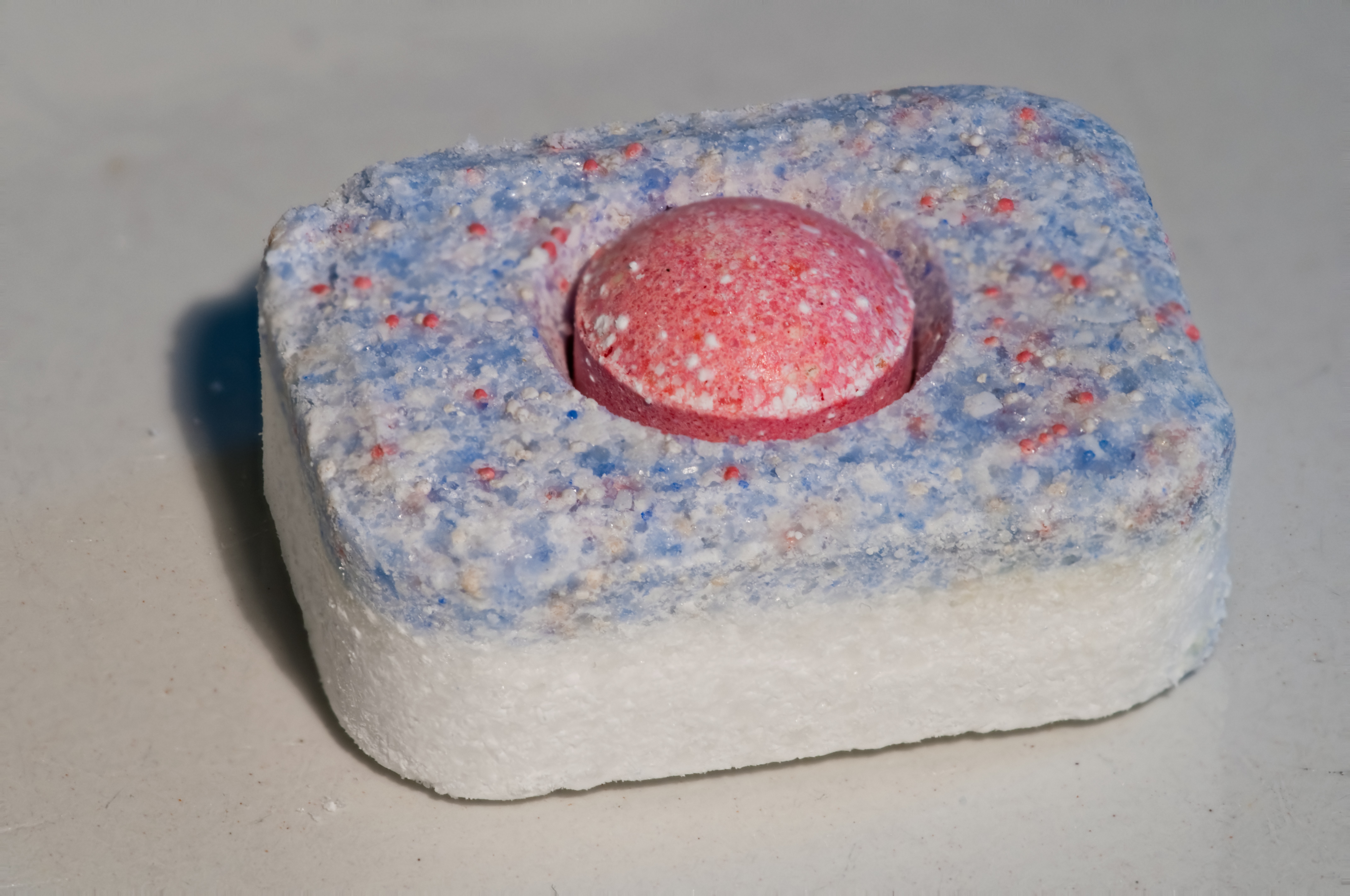 Detergent tablet for dishwashing machine (Finish powerball, MaxIn1). This is a focus stacking of 11 images using Zerene Stacker. Some areas did not get proper focus but this was my first try using this technique. The final result was noise reduced using Neat Image.